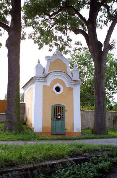 Baroque chapel from 18th century in Babina, part of Plasy town, Plzeň-North District, Czech Republic.